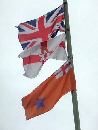 Flags that fly in Newbuildings village